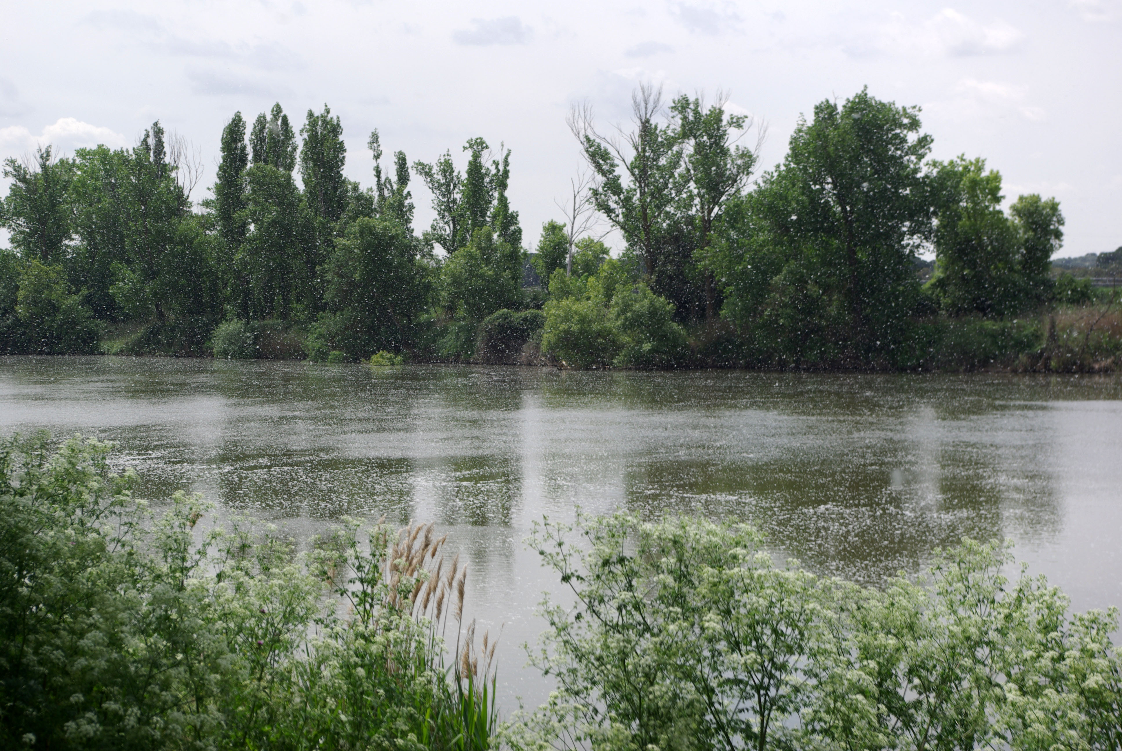 Seed dispersal by wind and water of black poplar (Populus nigra). Near San Miguel del Pino (Valladolid, Spain)